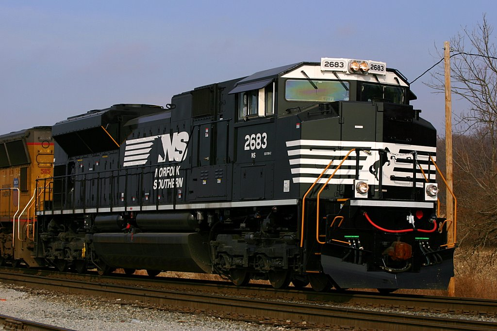 You could smell the fresh paint on this engine, December 05, Princeton, IN Norfolk Southern 2683, EMD SD70M-2